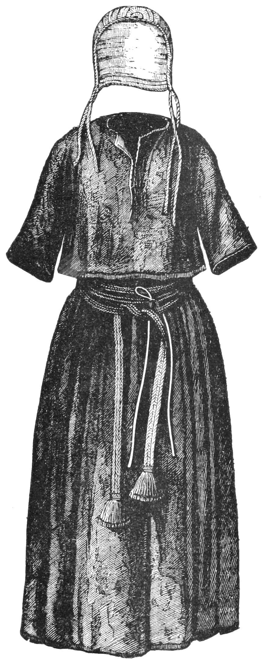 Woman's dress from Borum Eshøj, Aarhus Municipality, Jutland, Denmark.